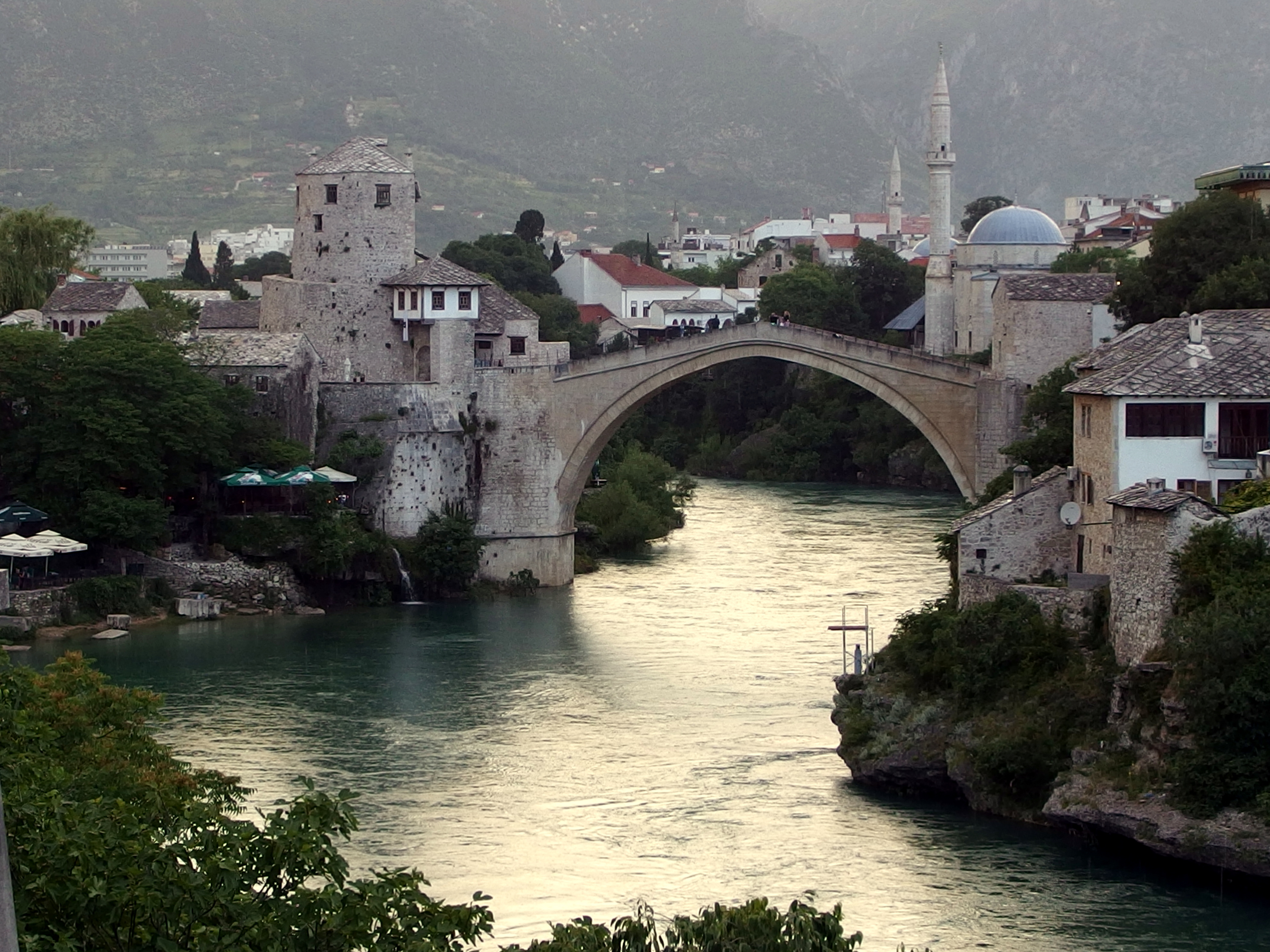 2013-06-06 in Mostar.